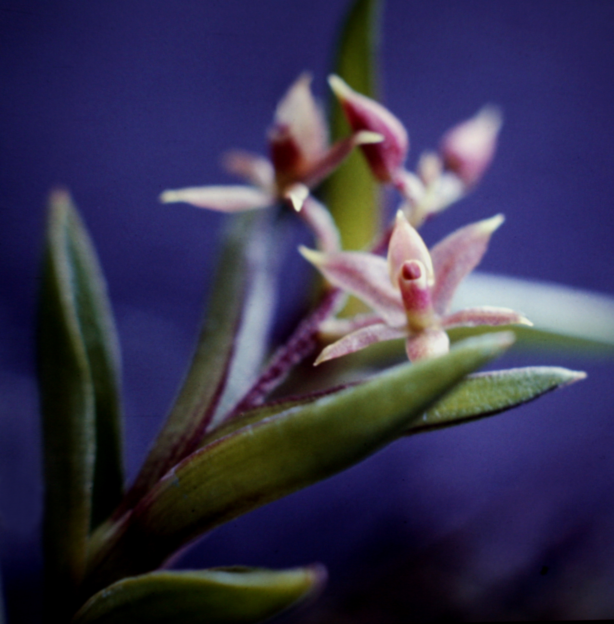 Lanium microphyllum. Suriname.